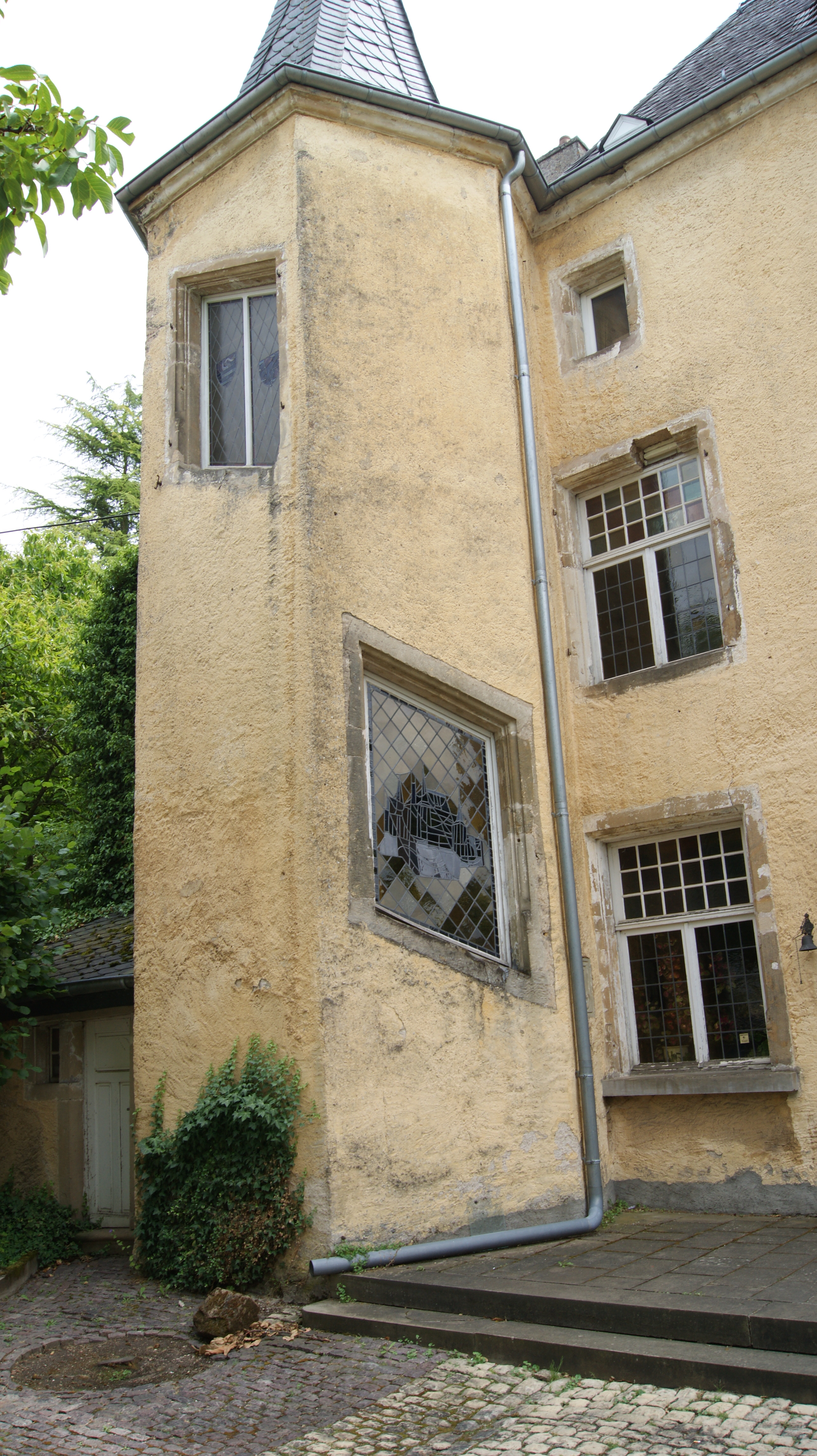 Wintrange Castle in Wintrange in the municipality Schengen, Luxembourg. Built in 1610.